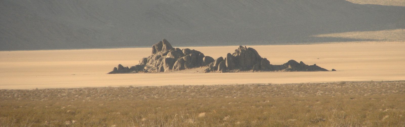 A view of The Grandstand at the northwest corner of The Racetrack Playa. This picture was taken from alongside the road running from Teapot Junction down to the western side of the playa.